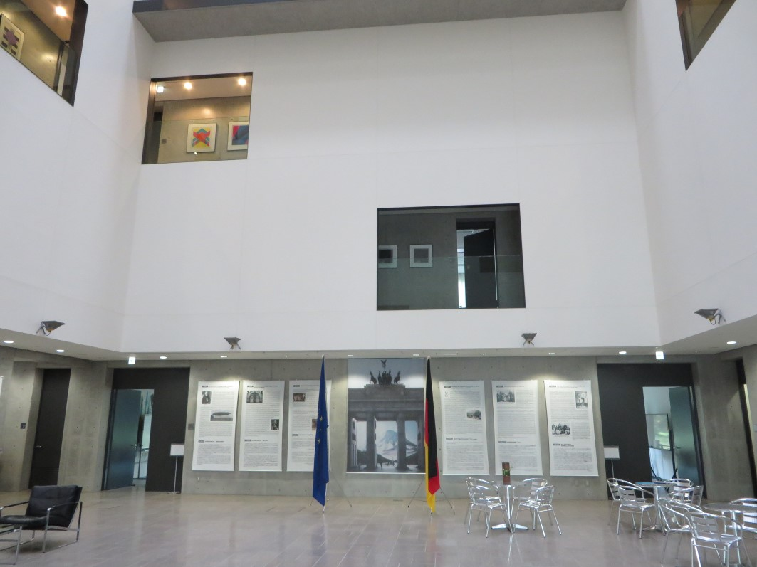 German Embassy Tokyo Interieur